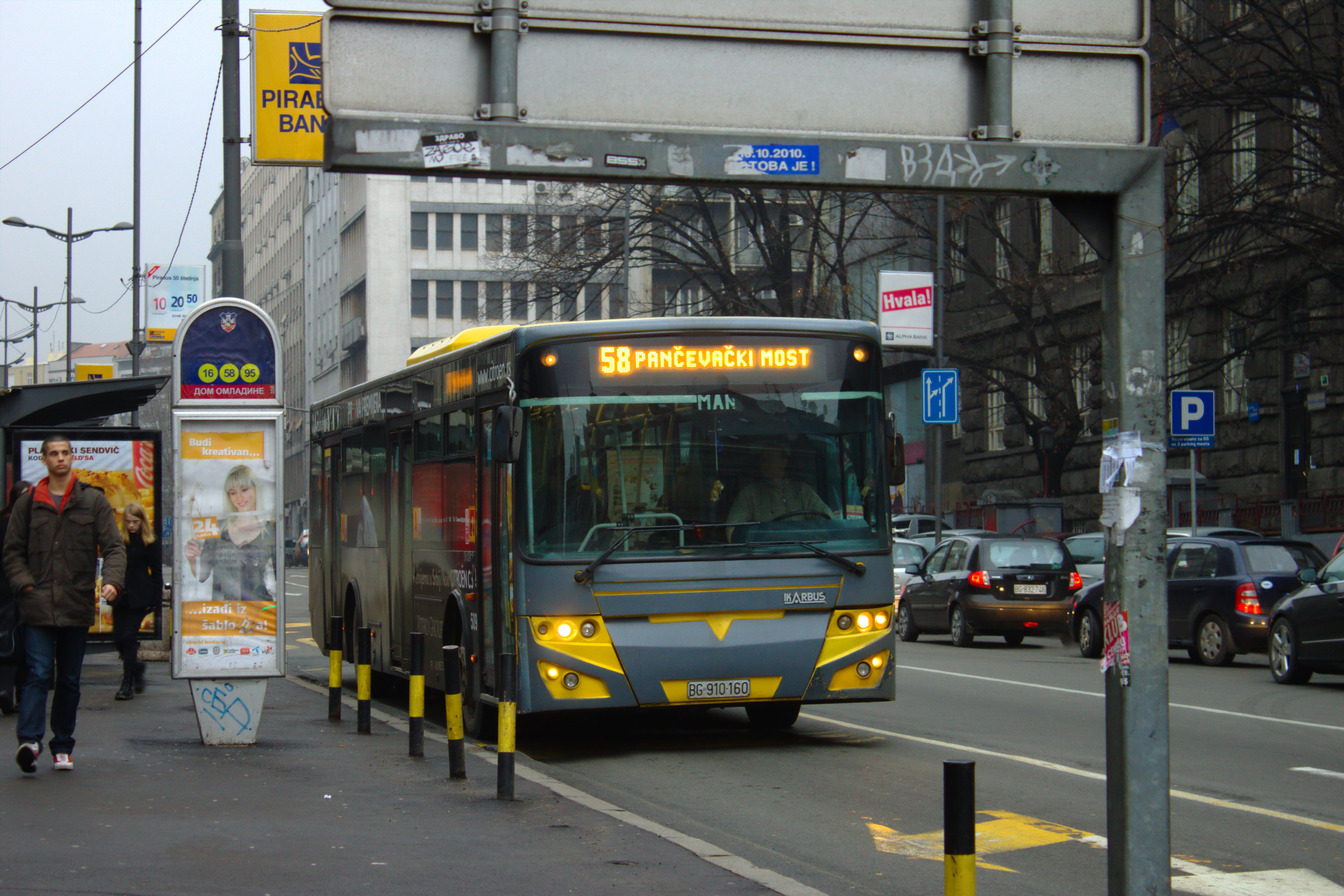 An urban bus in Belgrade, Serbia